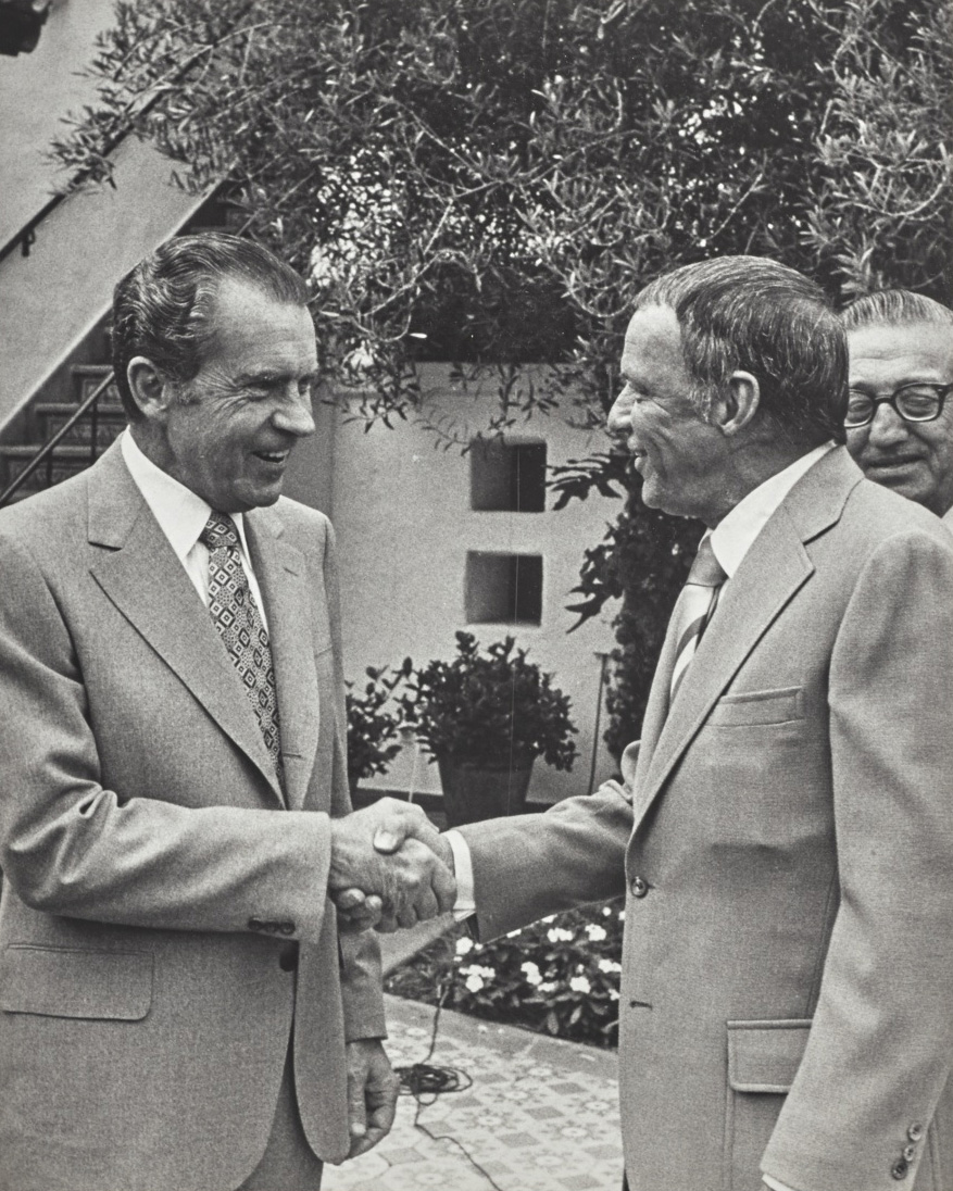 Photo of Richard Nixon and Frank Sinatra shaking hands at a "celebrity reception" hosted by Nixon in California (see video of the event on YouTube, via the Richard Nixon Presidential Library). Once an ardent Democrat, Sinatra's endorsement of Nixon in that year's presidential election marked a major turning point in the entertainer's political life.